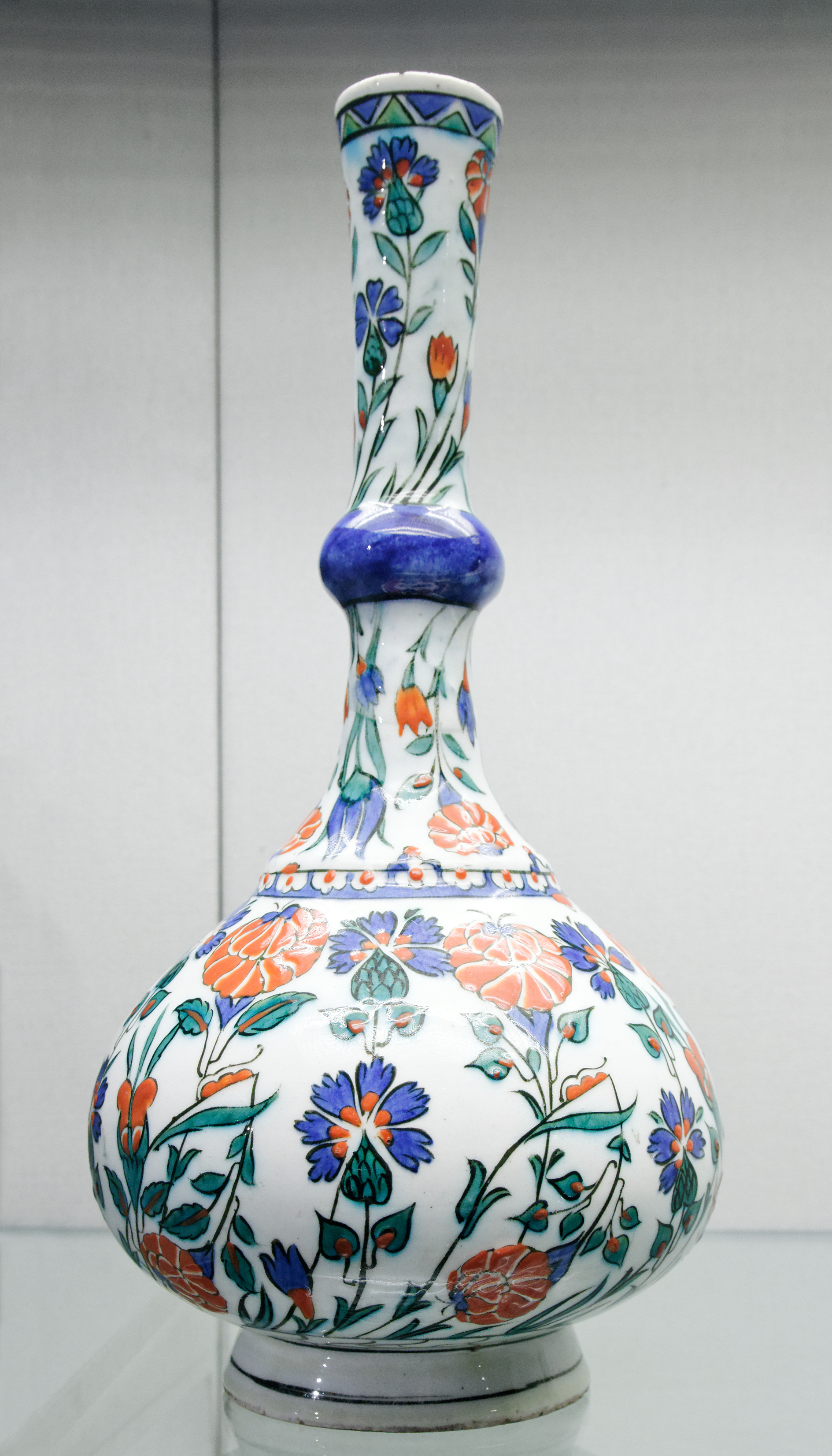 Bottle with roses, carnations, and other flowers.